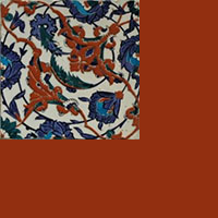 3D texture addressing mode: border. For use in Arabic Texture Addressing article on Wikipedia. Source tile is from an image from Wikimedia Commons, fully available for use by public domain.